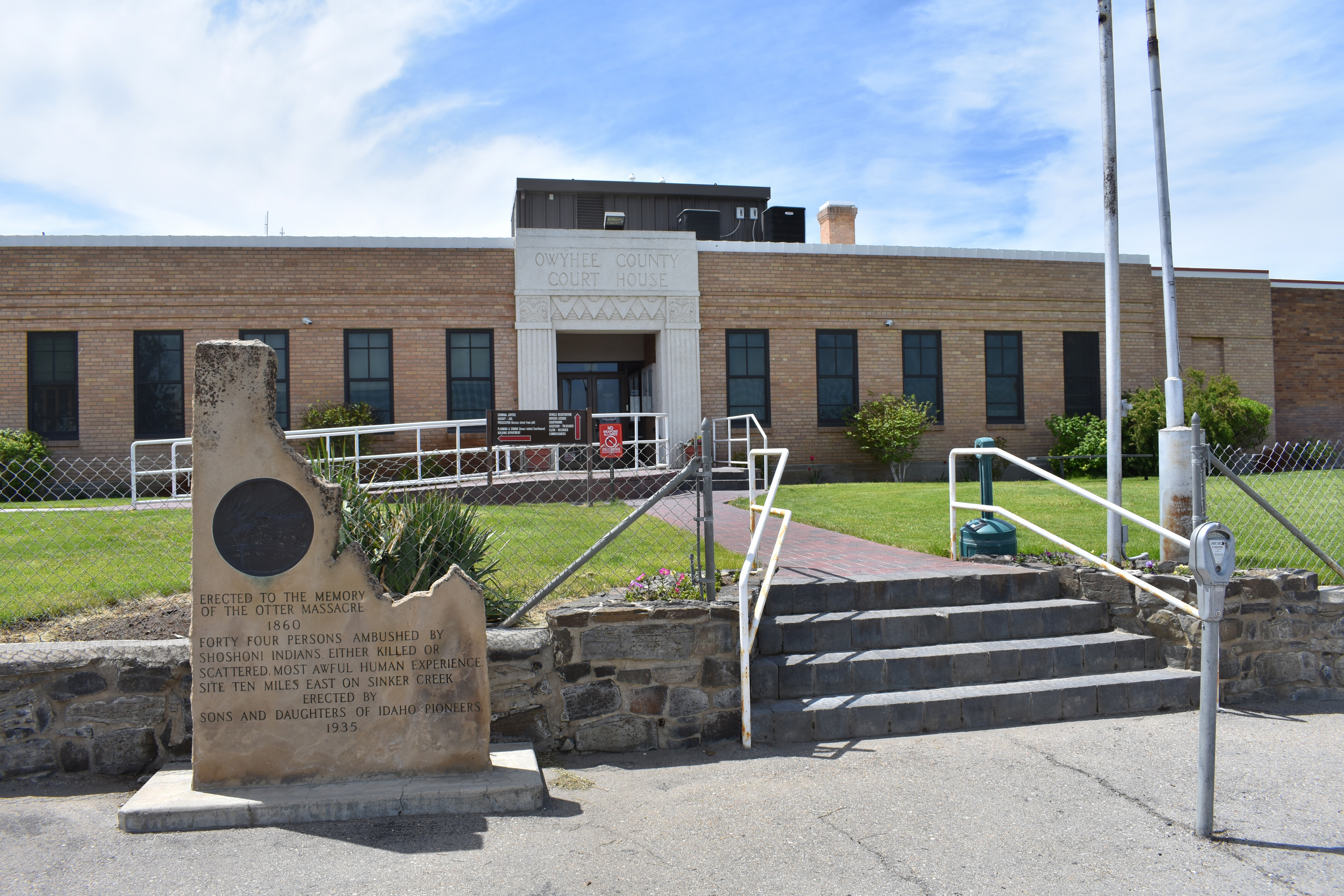 The Owyhee County Courthouse in Murphy, Idaho, was designed by Tourtellotte & Hummel and constructed in 1936. The courthouse is listed on the National Register of Historic Places.